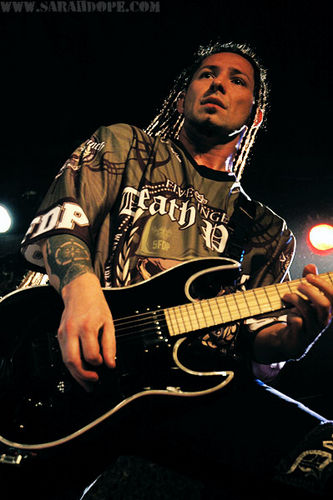 Zoltan Bathory of Five Finger Death Punch. "Shock & Raw" tour. Pomona, CA.